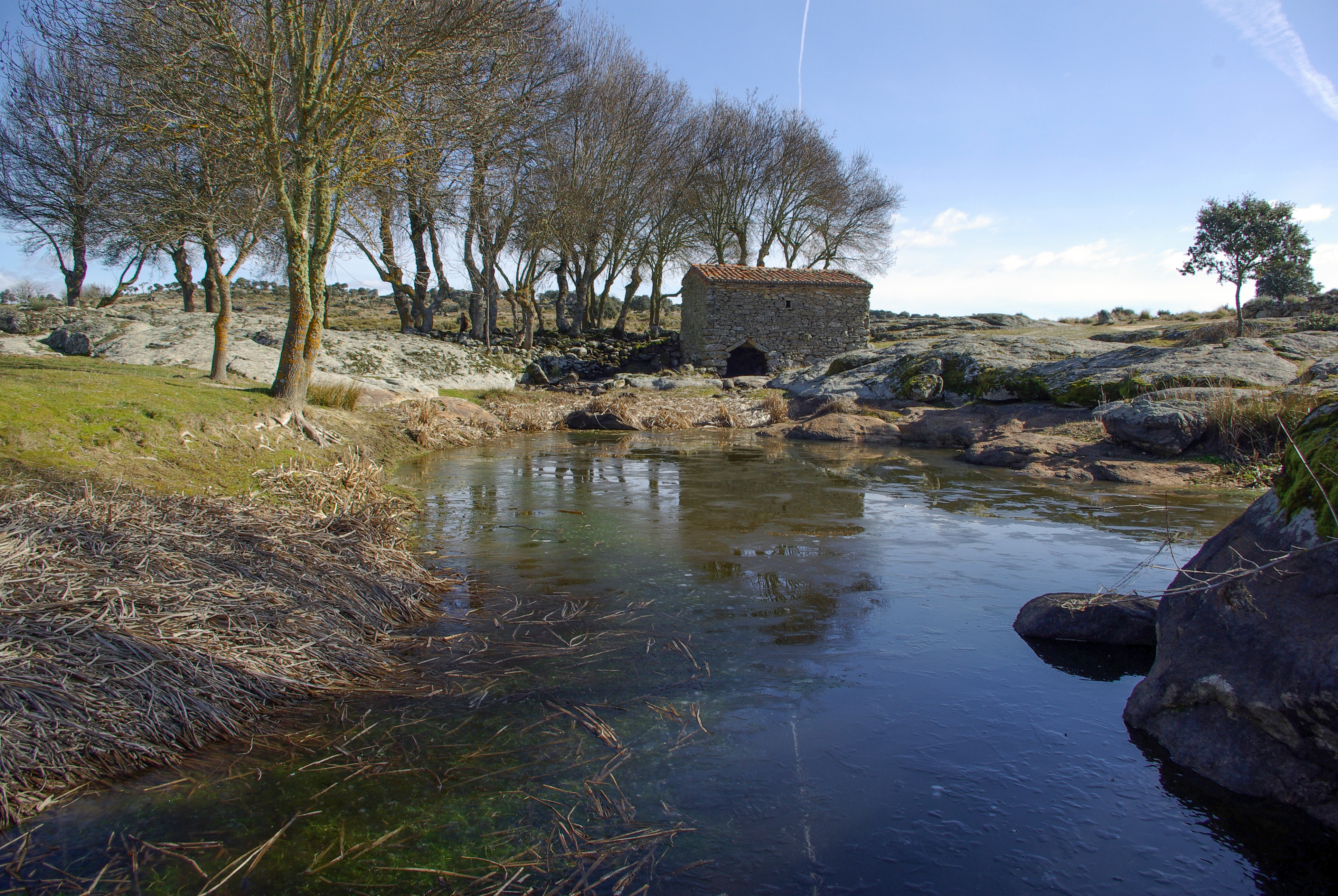 Valduzón watermill near Badilla, Fariza (Zamora, Spain)